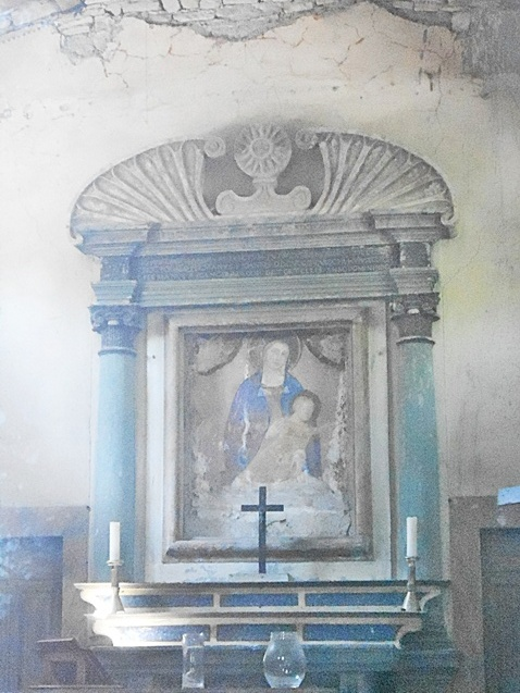 altarpiece